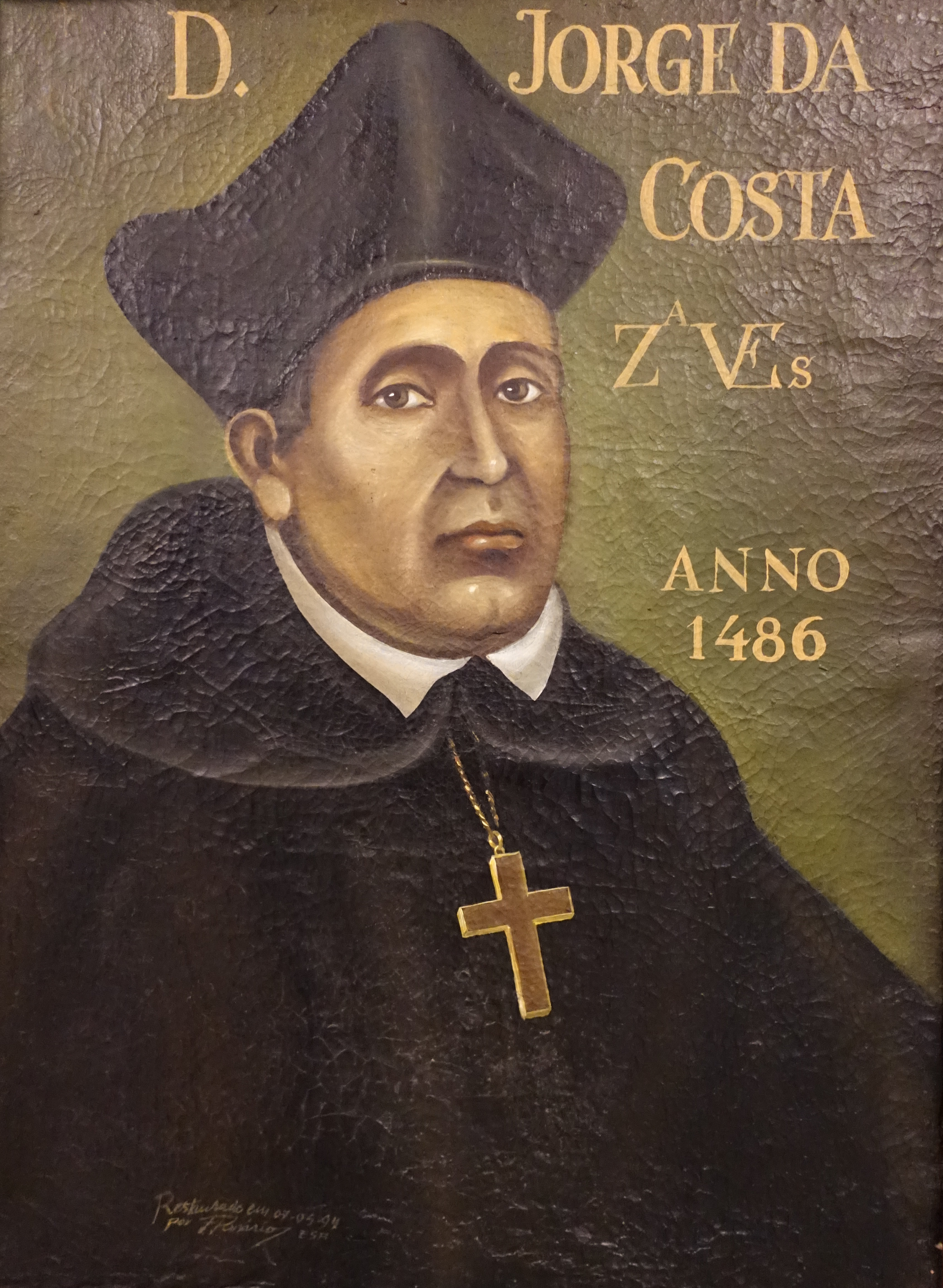 Archbishops Gallery in Braga, Portugal